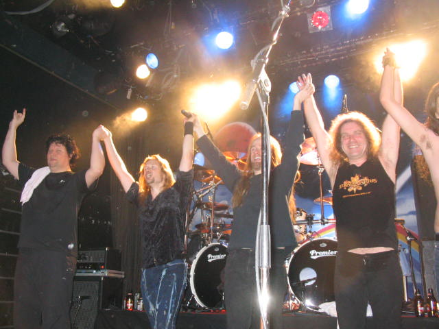 Stratovarius and Sentiment in Tavastia, April 5, 2006.